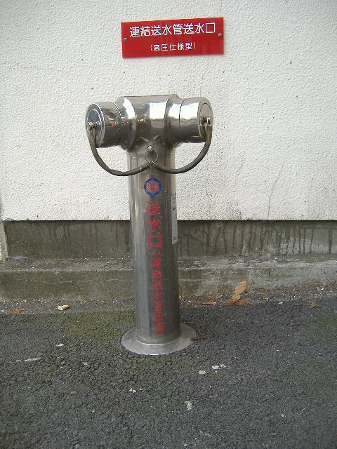 Firefighting plumbing valve